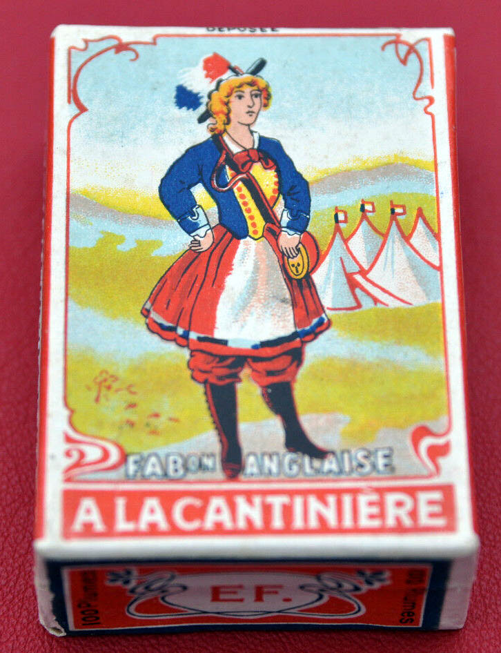 Dip pens box "A la cantiniére" by Sommerville & Co. "Made in England" (fab on Anglaise, written in French language).